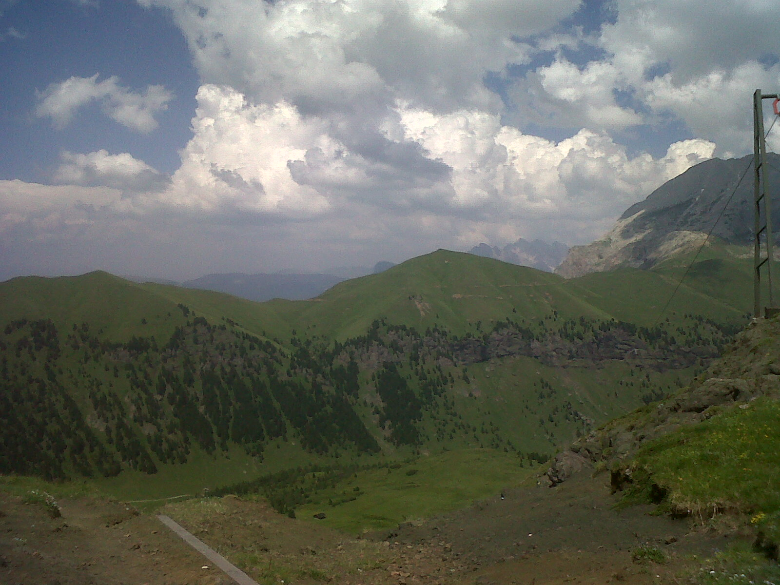 View of Duron Valley by Ciaresole Pass.